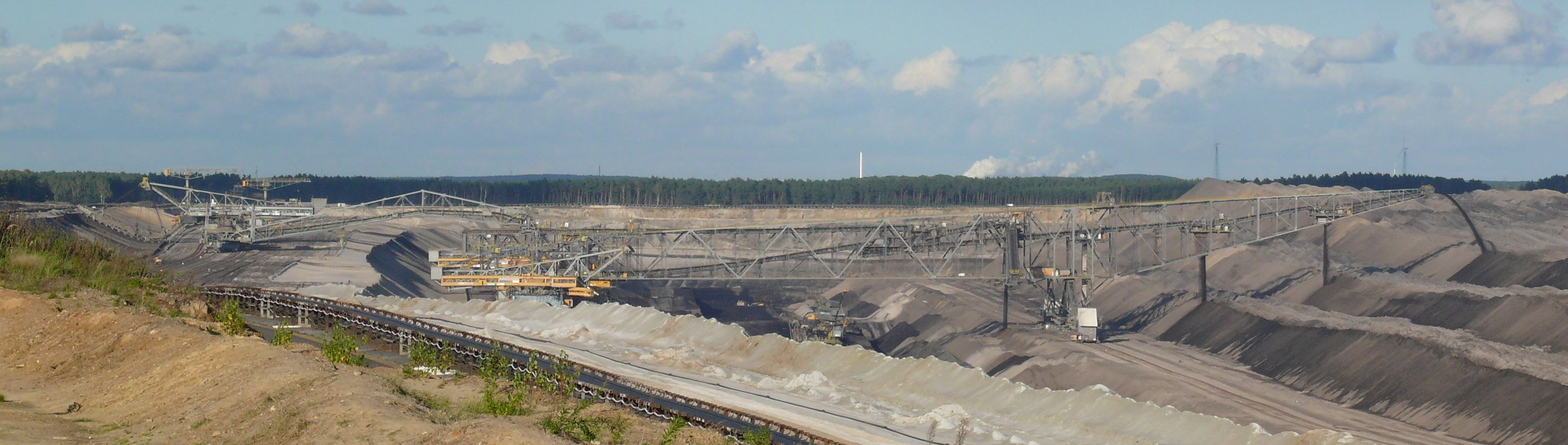 Overburden Conveyor Bridge of type F60 in the open cast mining Welzow-Süd, Lusatia, Germany.